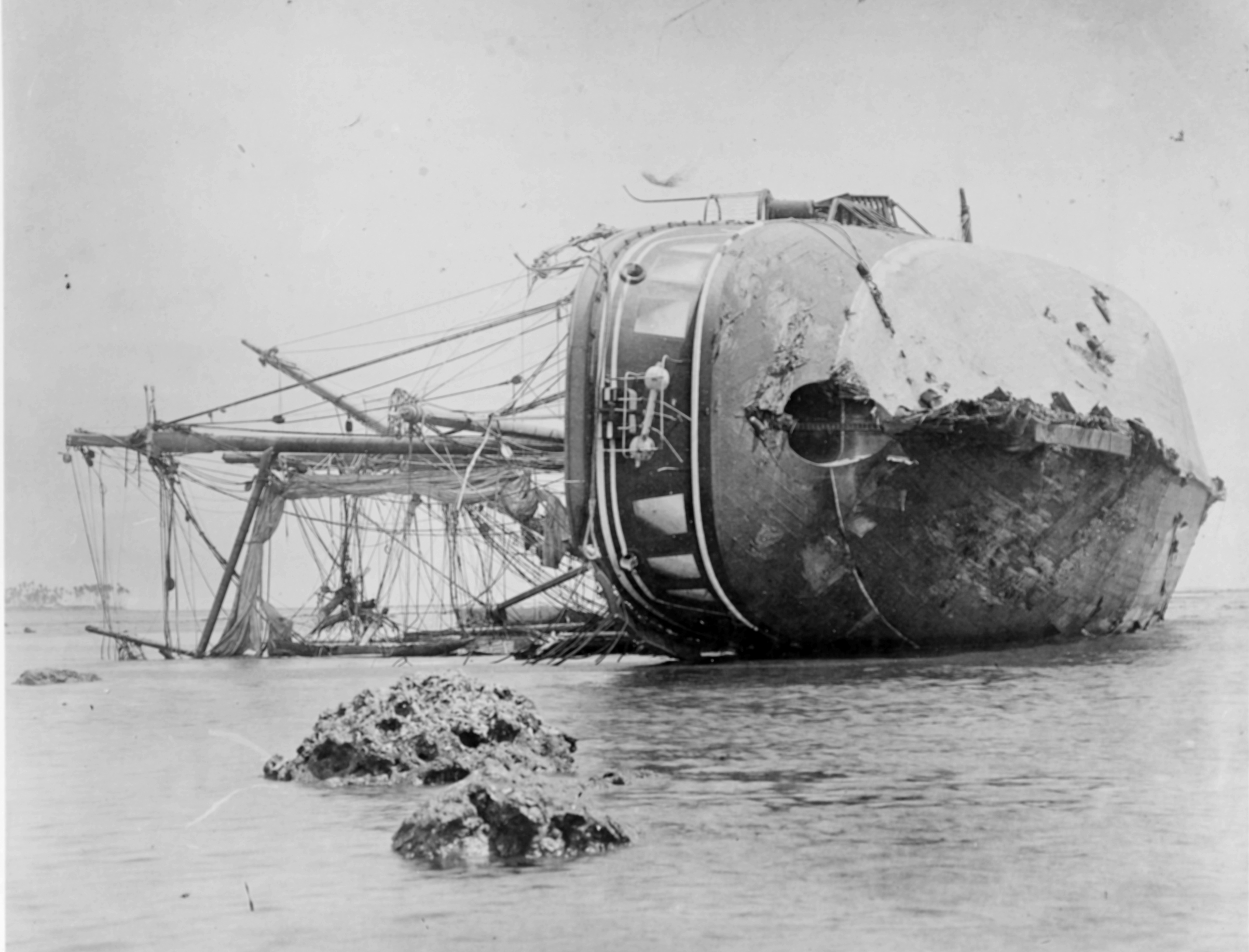 German Gunboat Adler Overturned on the reef, on the western side of Apia Harbor, Upolu, Samoa, soon after the storm. Note her battered hull, well for hoisting propeller, rescue bouy mounted on her stern, and decorative windows painted on her quarters. Original caption: “ Photo # NH 42286 German warship Adler wrecked at Apia, Samoa, after hurricane, March 1889 ”